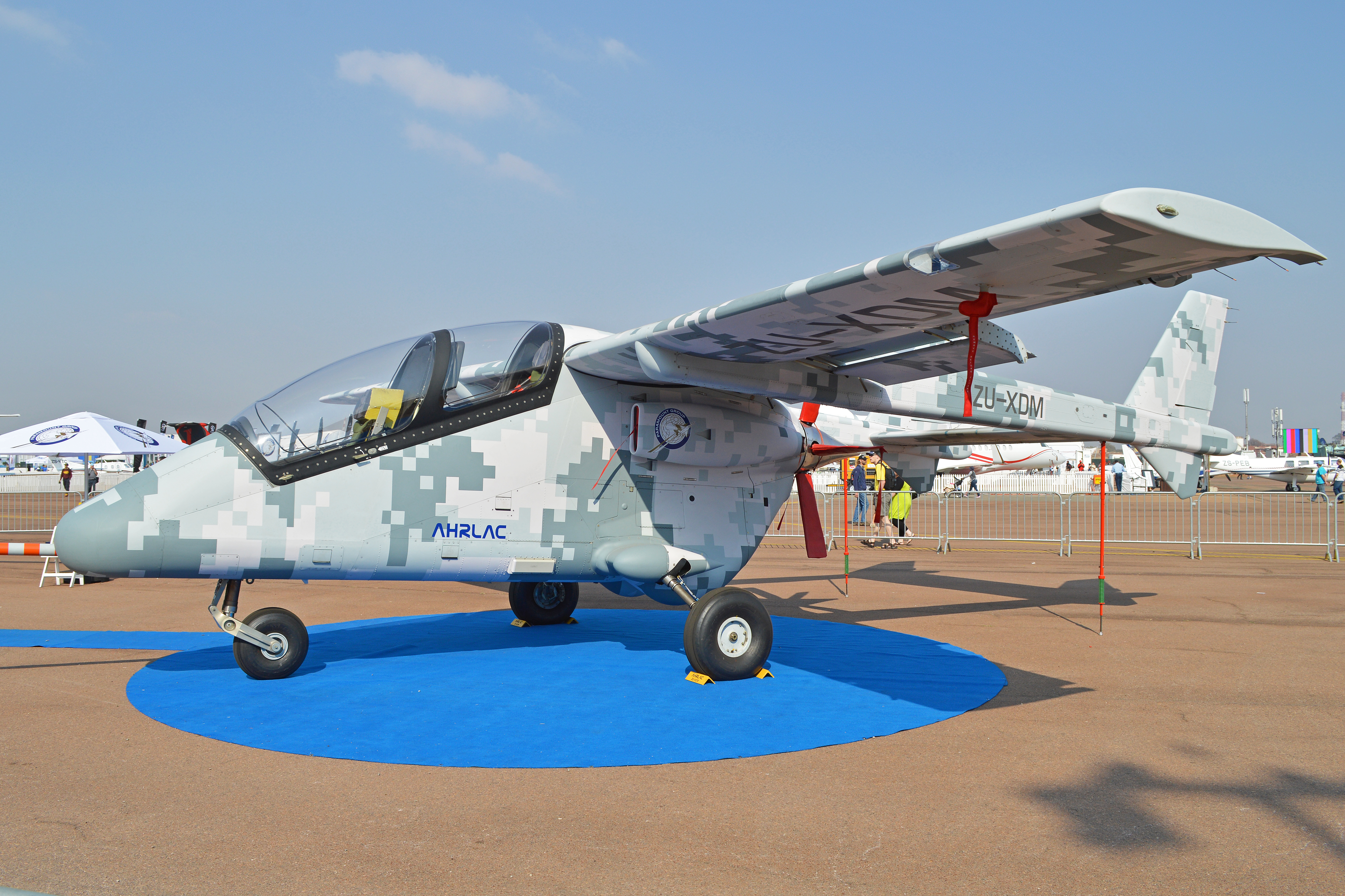 c/n A-001. First flight 26th July 2014. The AHRLAC (Advanced High performance Reconnaissance Light Air Craft) is designed to compete with UAVs in the Reconnaissance and Counter-Insurgency roles. Seen on static display at Waterkloof AFB during the 2014 AAD (African Aerospace & Defence) airshow. 20-9-2014